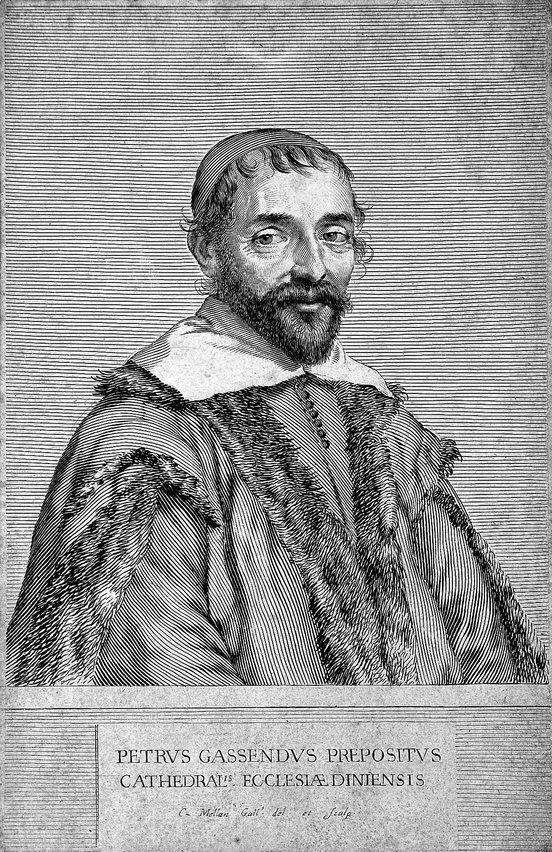 Pierre Gassendi. Line engraving by C. Mellan. Iconographic Collections Keywords: Pierre Gassendi; Claude Mellan